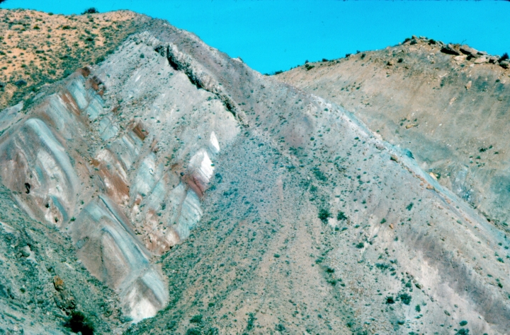 Steeply tilted exposure of the Morrison Formation at Dinosaur National Monument, Utah.